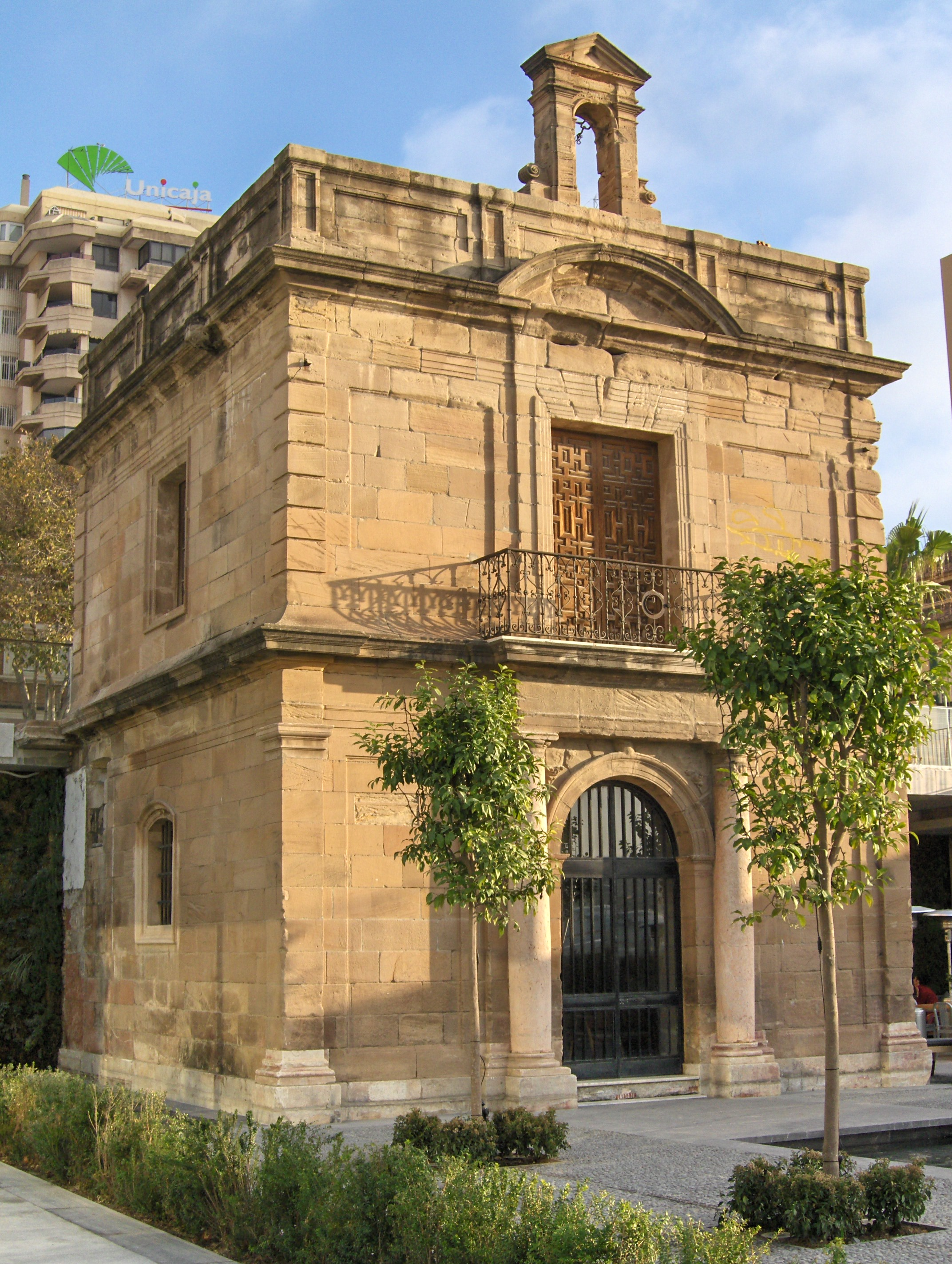 Capilla del Puerto, Málaga. 1732 by Jorge próspero Verboom y Coysevoux